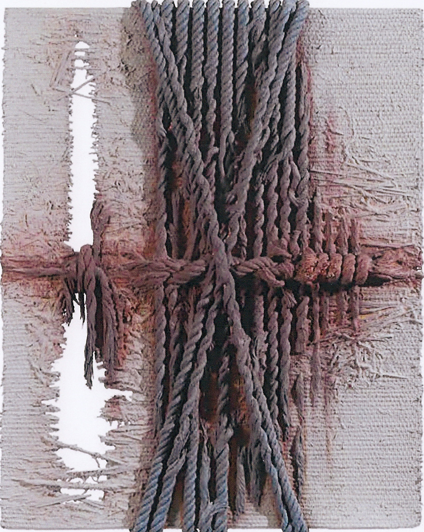 Jiménez-Balaguer Ropes of Memory 1998